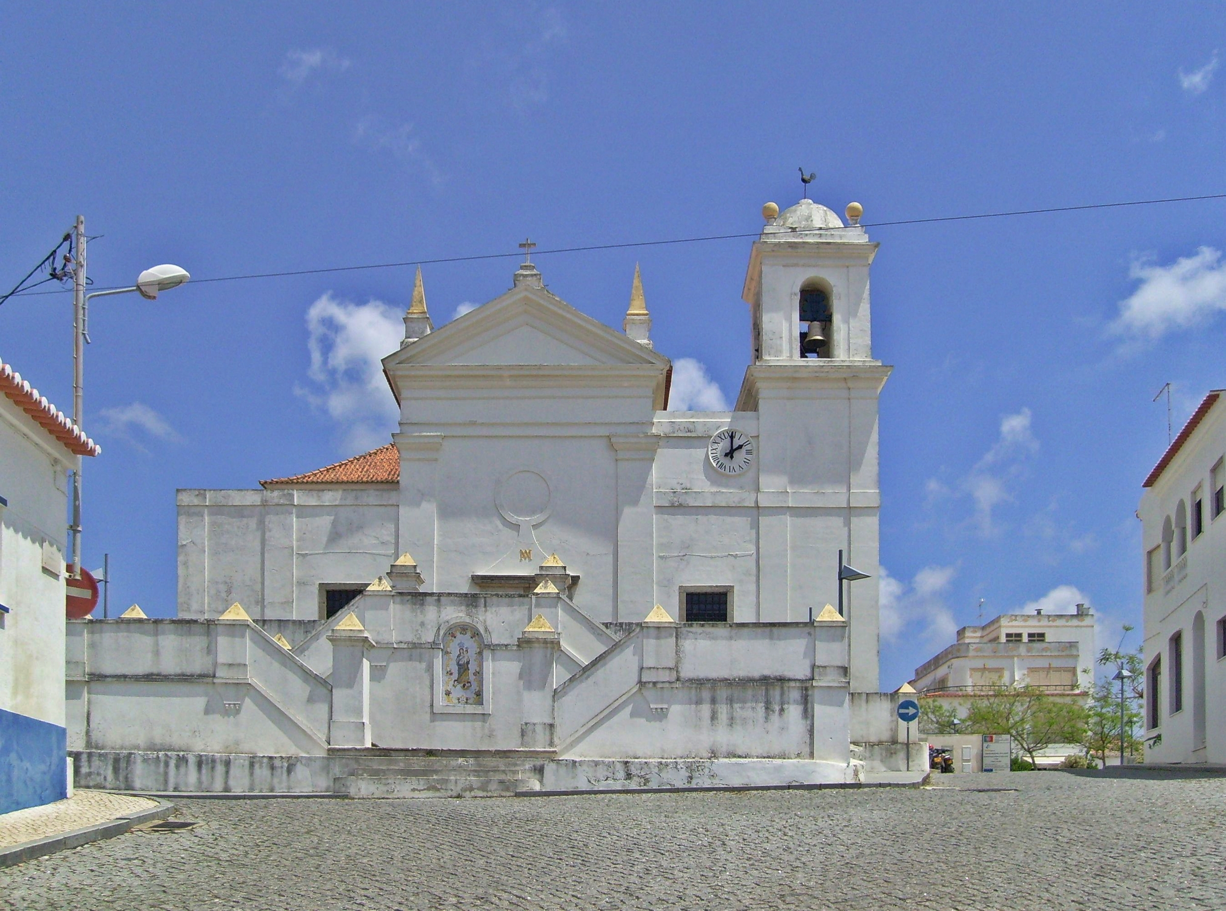 The new church of Aljezur, Algarve, Portugal.